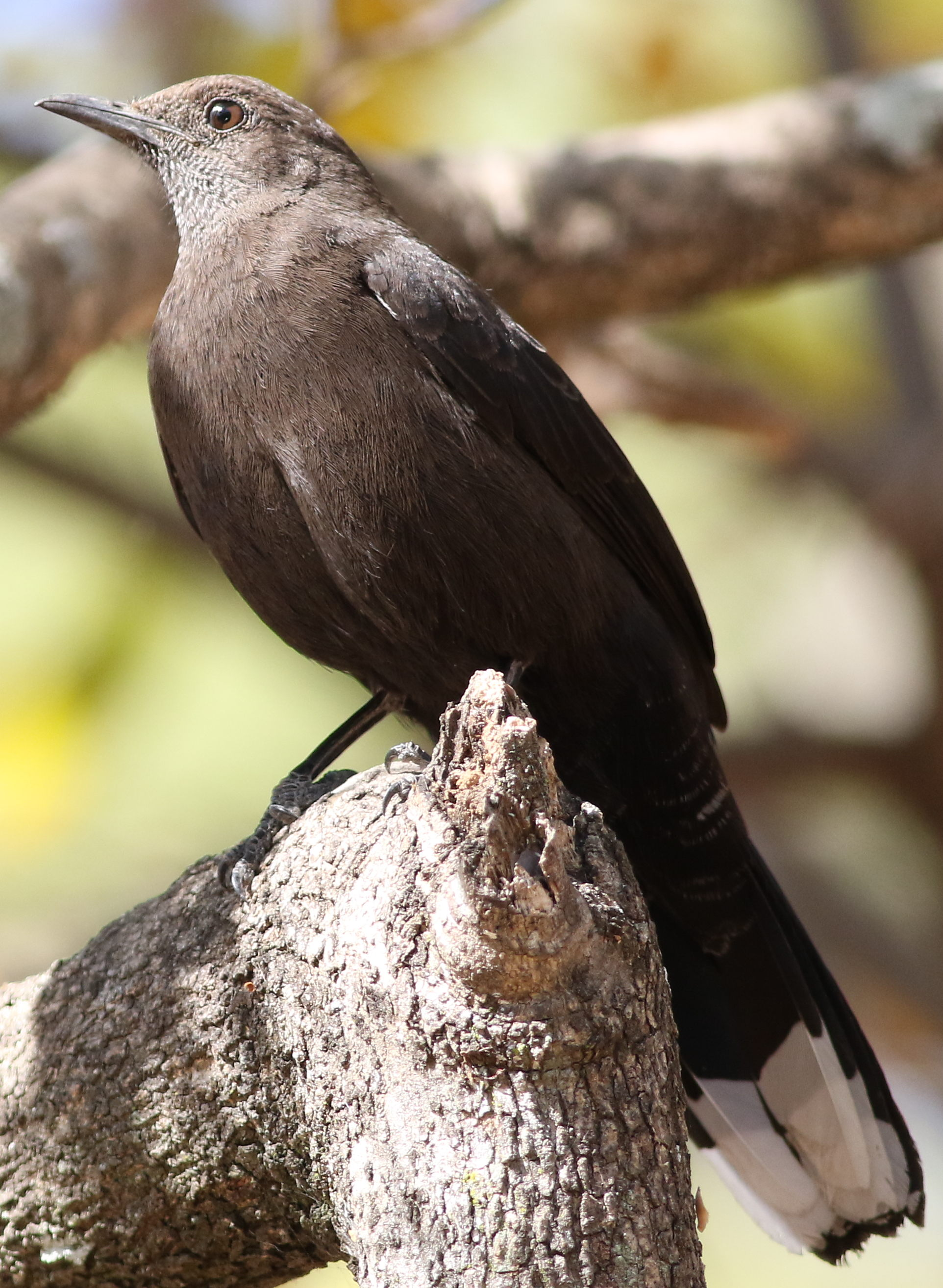 Boulder chat, Pinarornis plumosus, at Lake Chivero, Harare, Zimbabwe.